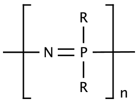 Repetitive unit of linear popyphosphazenes